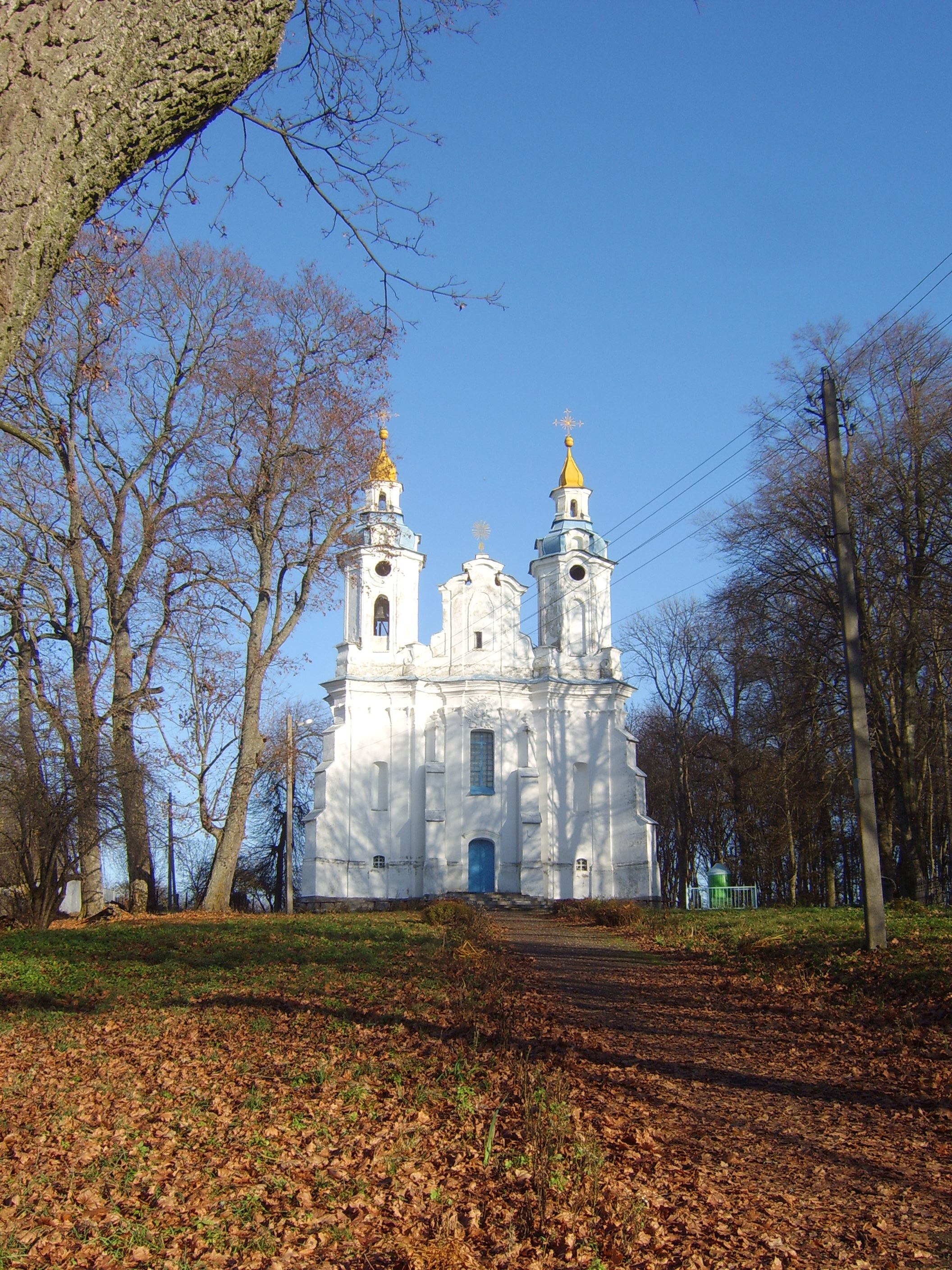 Volna, Orthodox church of the Holy Trinity